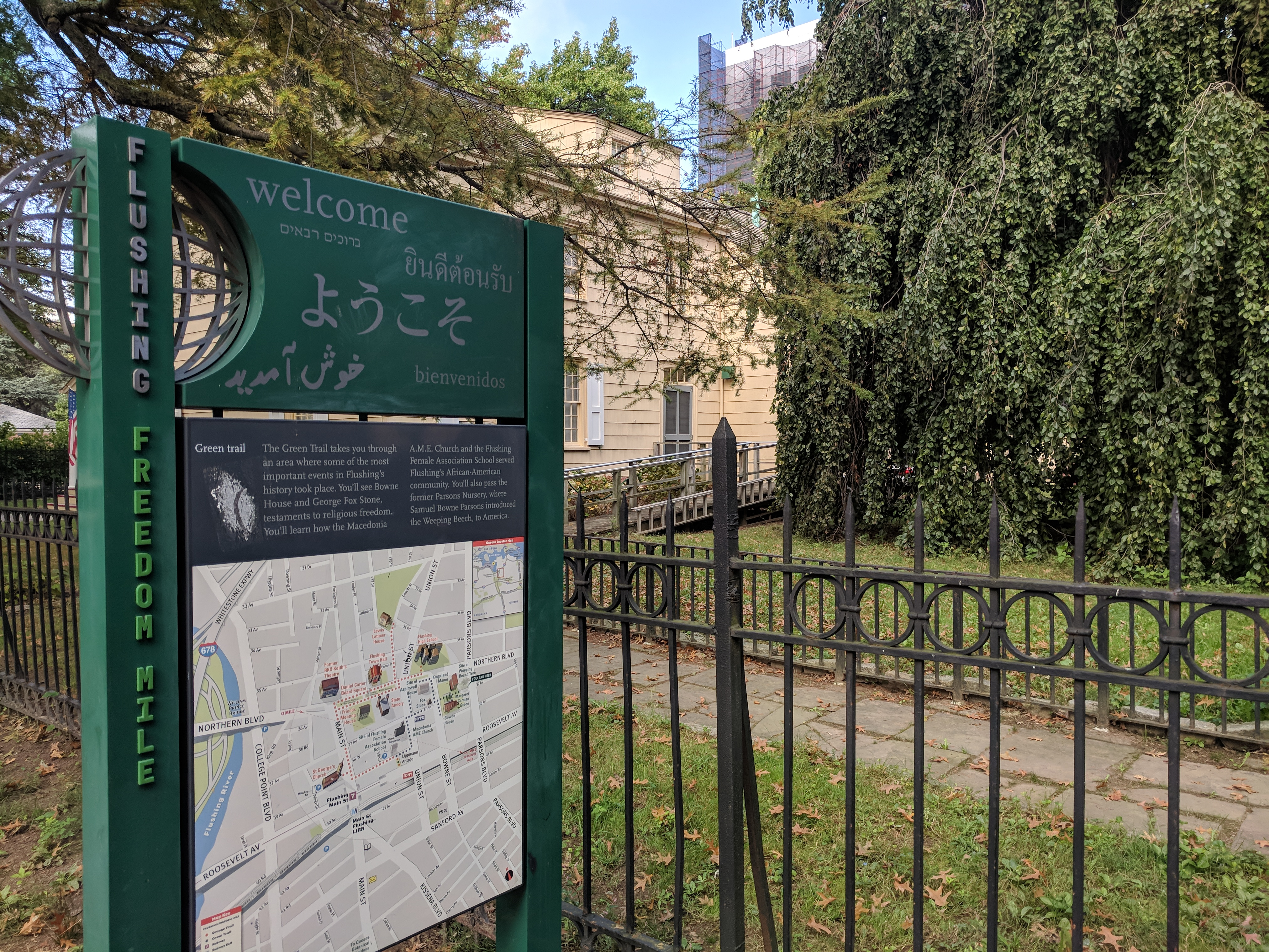 Kingsland Homestead, Weeping Beech, Freedom walk, Flushing NY